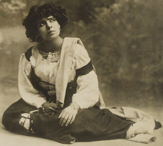 Mimi Aguglia in Luigi Capuana's Malia, New York - original image cropped (see source)